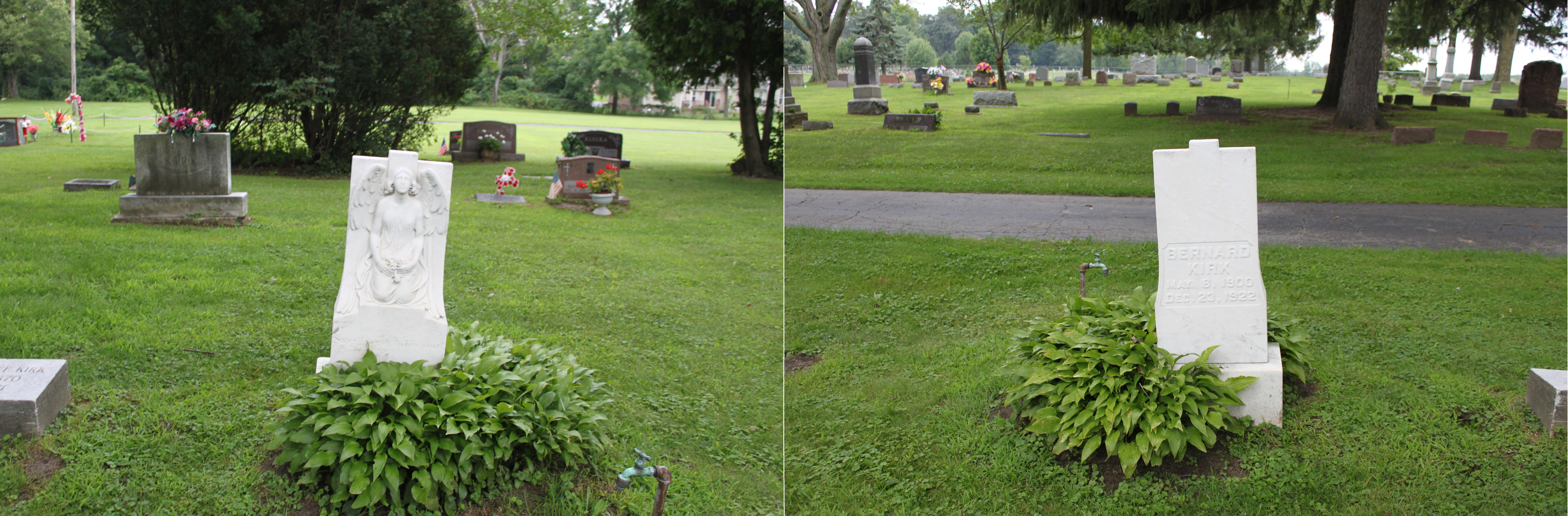 Bernard Kirk grave, St. John Cemetery, N. River Street, Ypsilanti Michigan